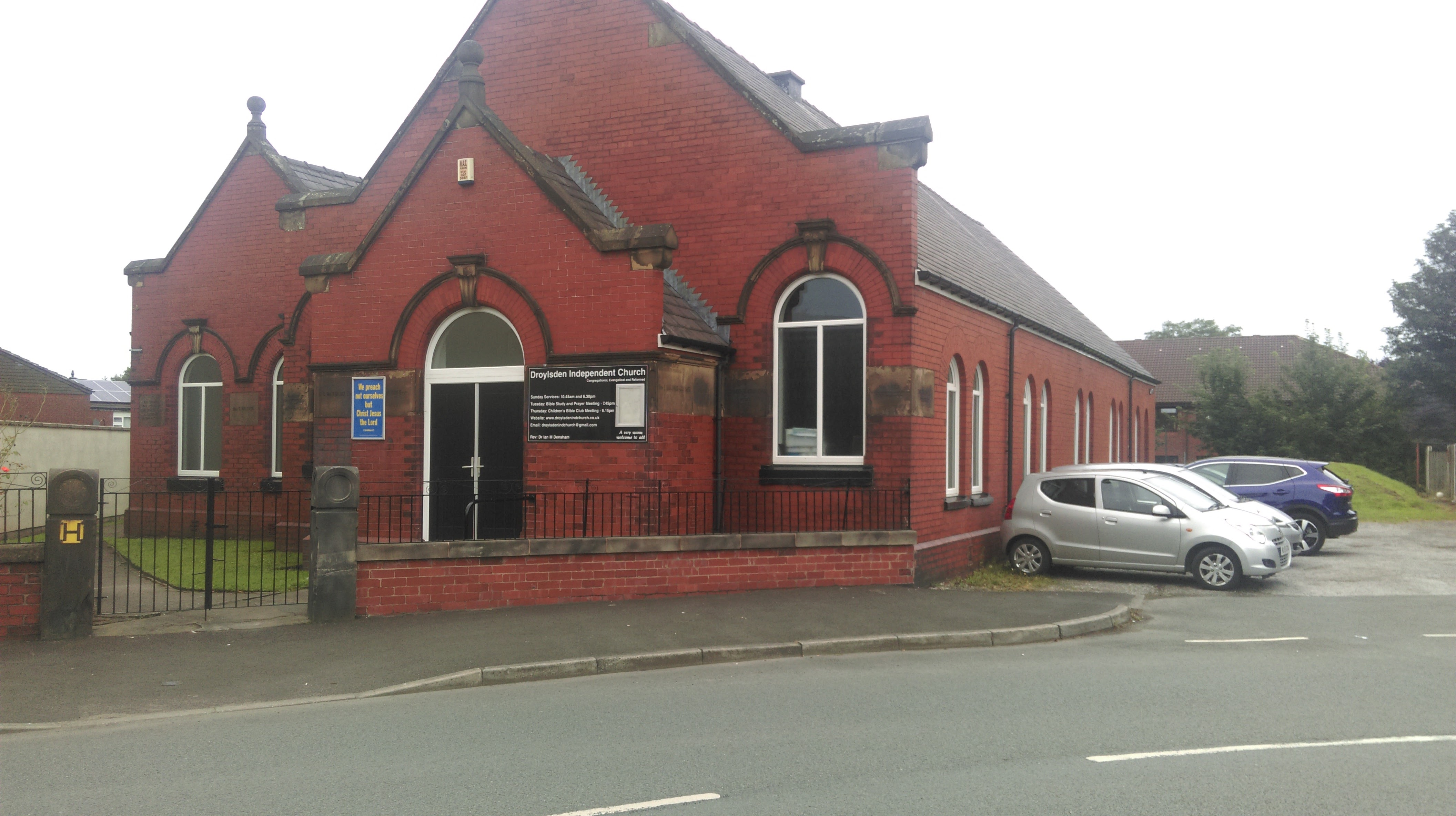 The premises of Droylsden Independent Church. Take from Ashton Hill Lane